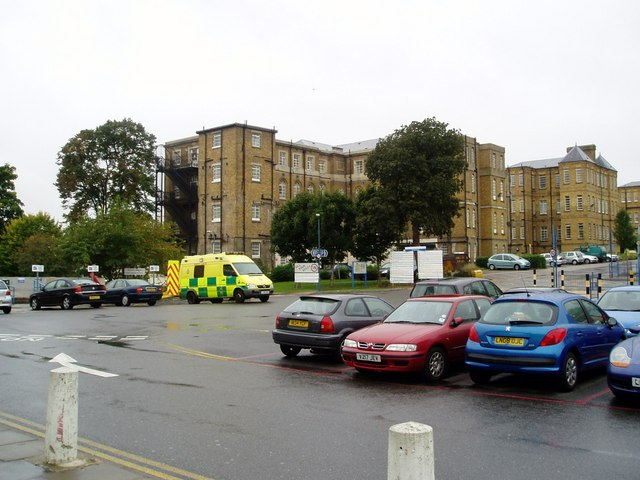 E Block, St. Bernard's Wing - Ealing hospital. St. Bernard's also known as Hanwell Insane Asylum, was built for the pauper insane and has evolved to become the West London Mental Health (NHS) Trust. Work on the asylum at Hanwell started in 1829 on land most of which (44 acres) was purchased from the Earl of Jersey. The building contractor was William Cubitt. The architect was William Alderson, a Quaker. His neo-classical design consisted of central octagonal 'panopticon' tower of a basement and two floors. The windows have a tall aspect with semicircular bonded gauge brick arches at the top. In November of the same year building work started again on the first extension (there was more expansion again in 1837, 1857 and 1879). The newer extensions which were added in 1857-59 are readily identifiable, as they have flat bonded arches to the tops of the windows. Today the building also serves as the head offices of the West London Mental Health NHS Trust (WLMHT). Although the on-site facilities have been reduced and scaled down from what was once the world's largest asylum, it is still very much involved with the treatment and research into serious mental distress. The WLMHT currently act as guardians of the Corsellis Collection, containing some nine thousand specimens of brains dating back to the 1950s.